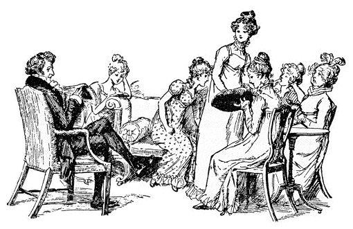 Illustration by Hugh Thomson to Jane Austen's novel Pride and Prejudice, ca. 1894. Depicts the Bennet family at home (probably illustration to Chapter 2).